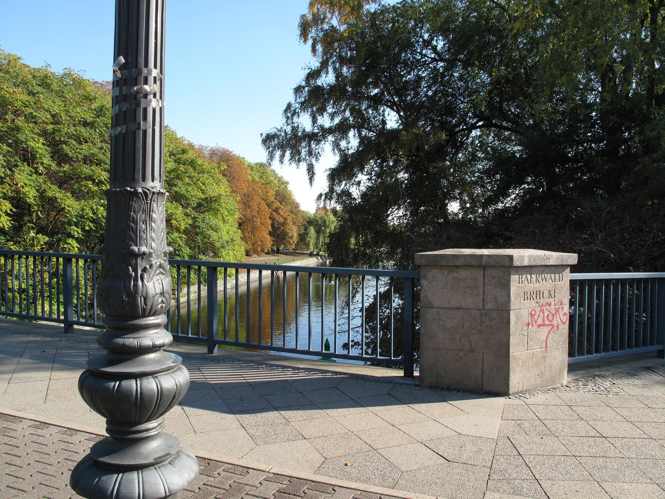 Baerwaldbrücke (bridge), crossing the Landwehrkanal (canal) in Berlin-Kreuzberg.